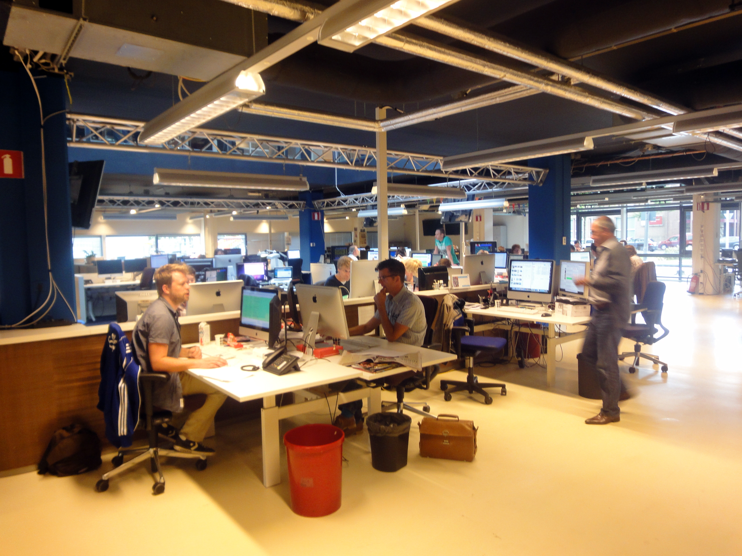 The center of the ANP news center in Rijswijk